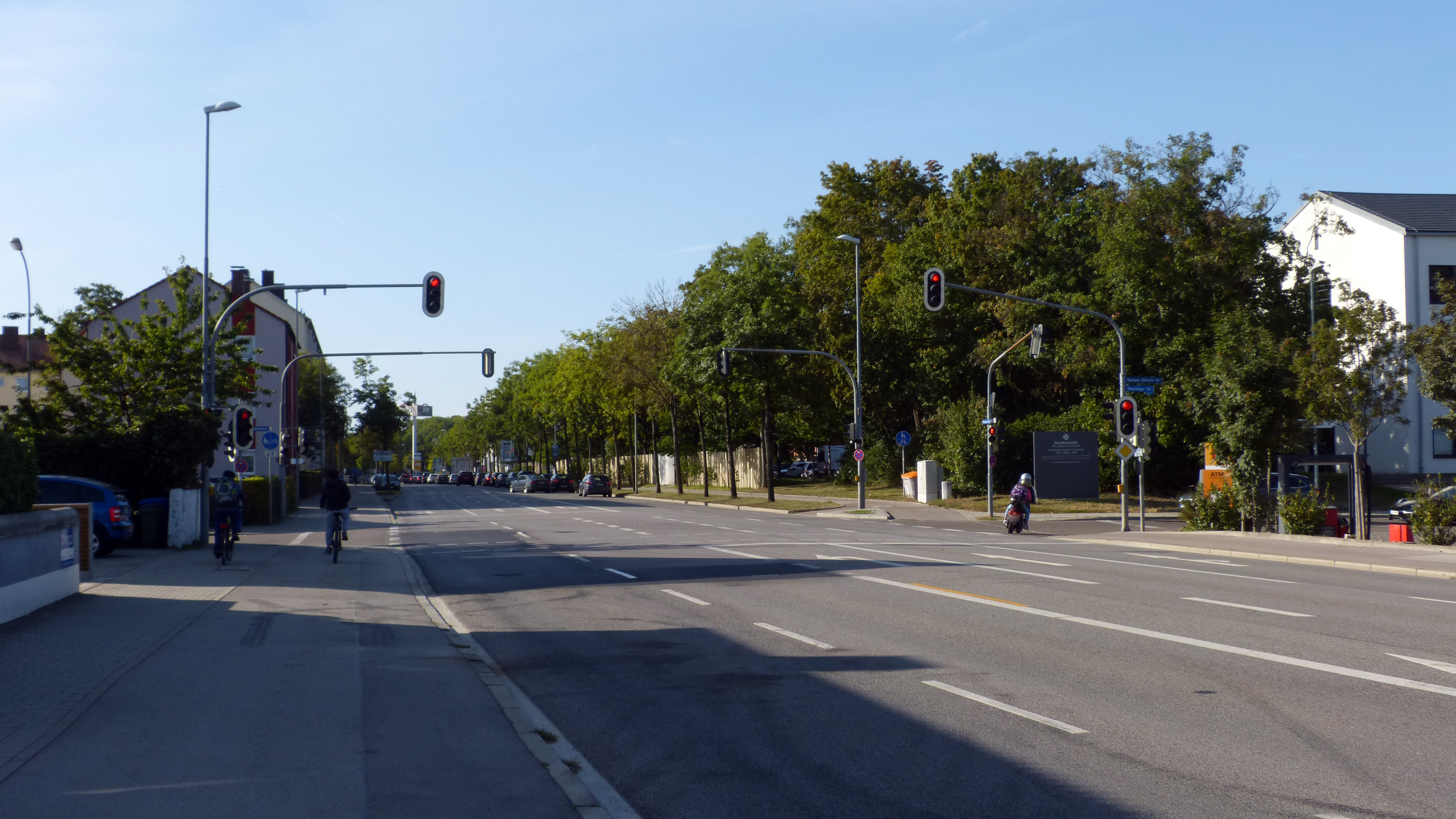 View of the Manchinger Straße in Ingolstadt, Bavaria